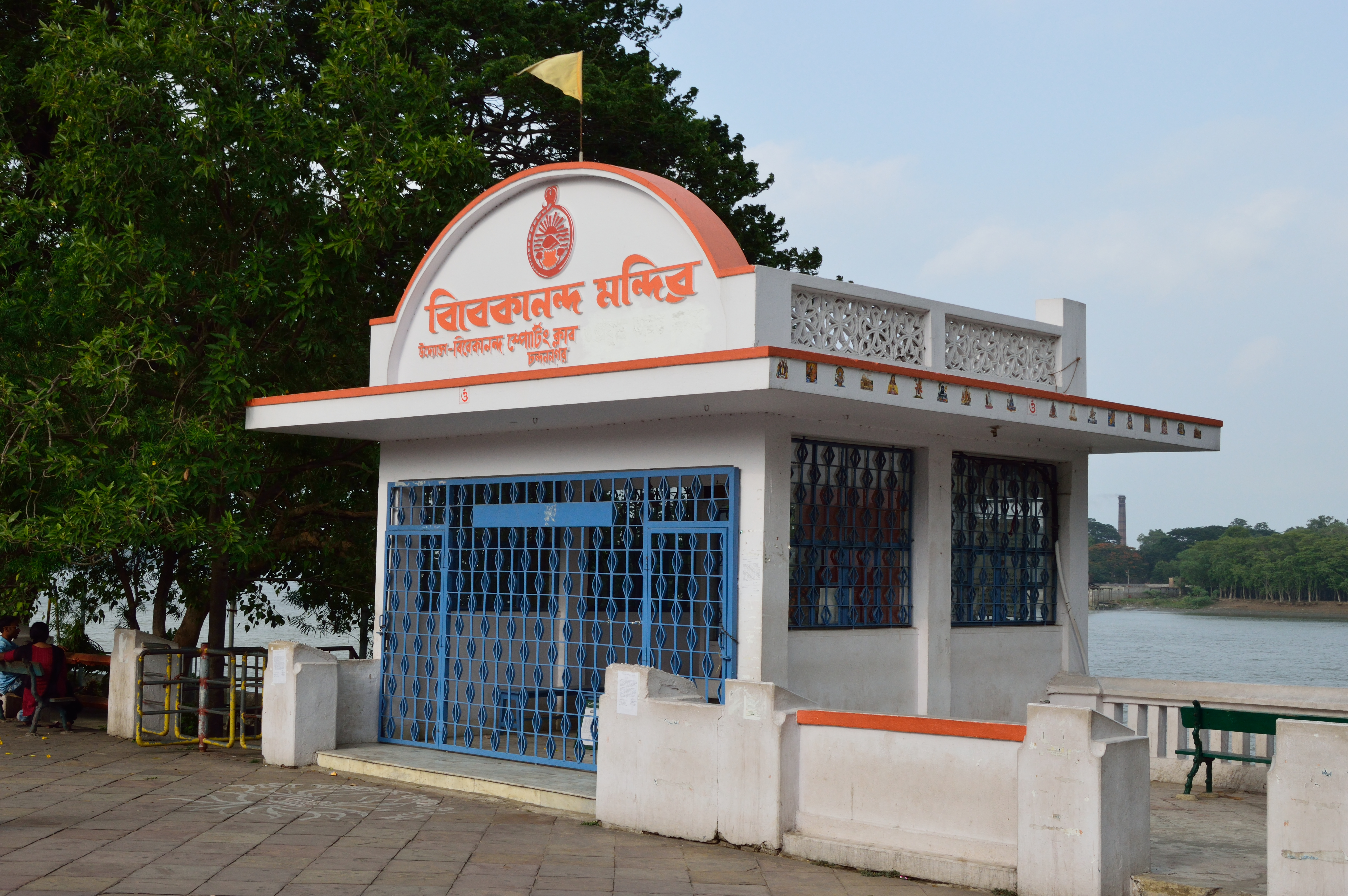 Photographed at Chandan Nagar or Chandannagar or Chandernagor in Hooghly, West Bengal.